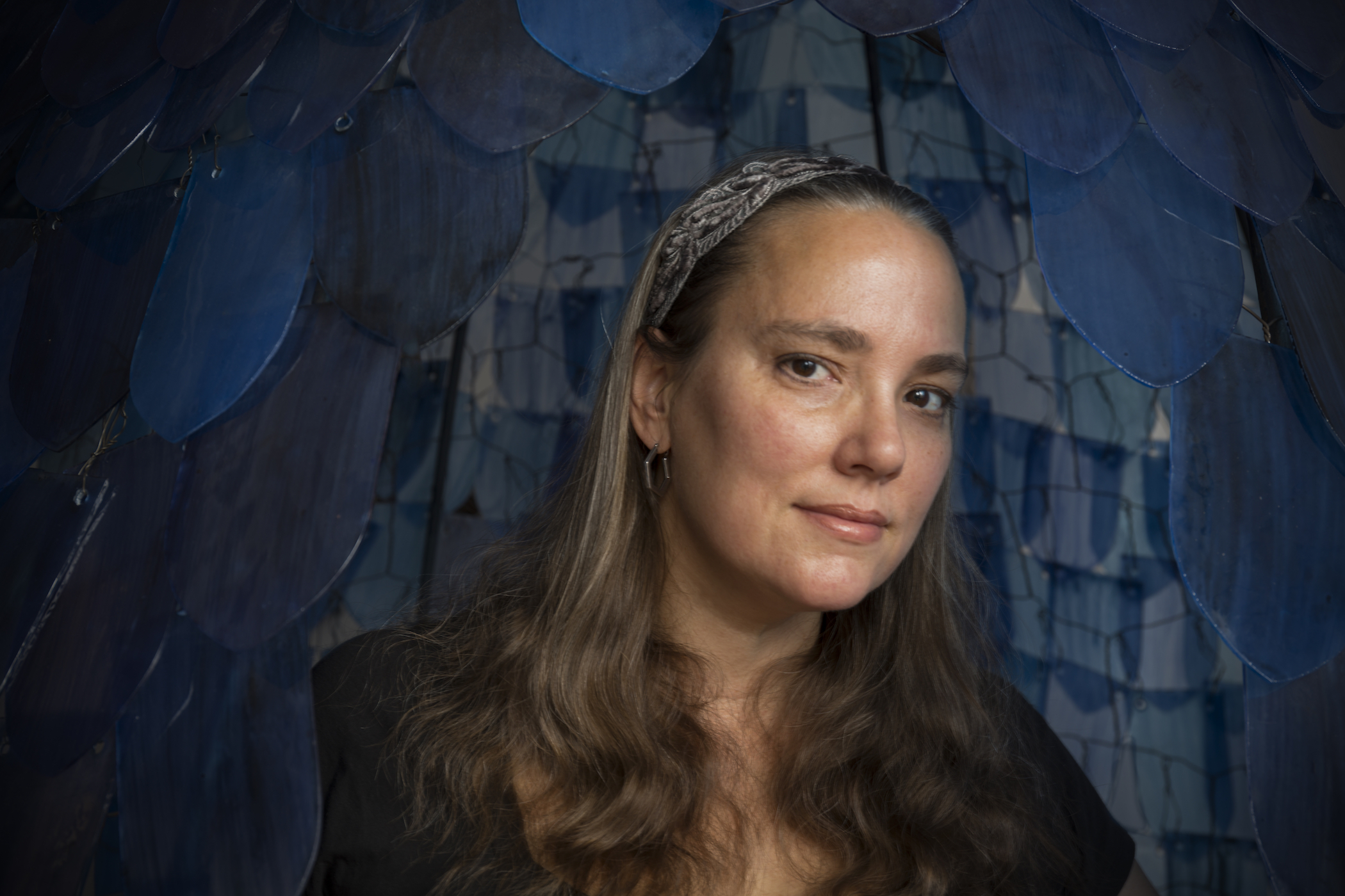 Artist Sculptor Kait Rhoads posing in her piece Blue Dome, glass dome made of plate glass, binding wire and steel. Photo by Ian Lewis